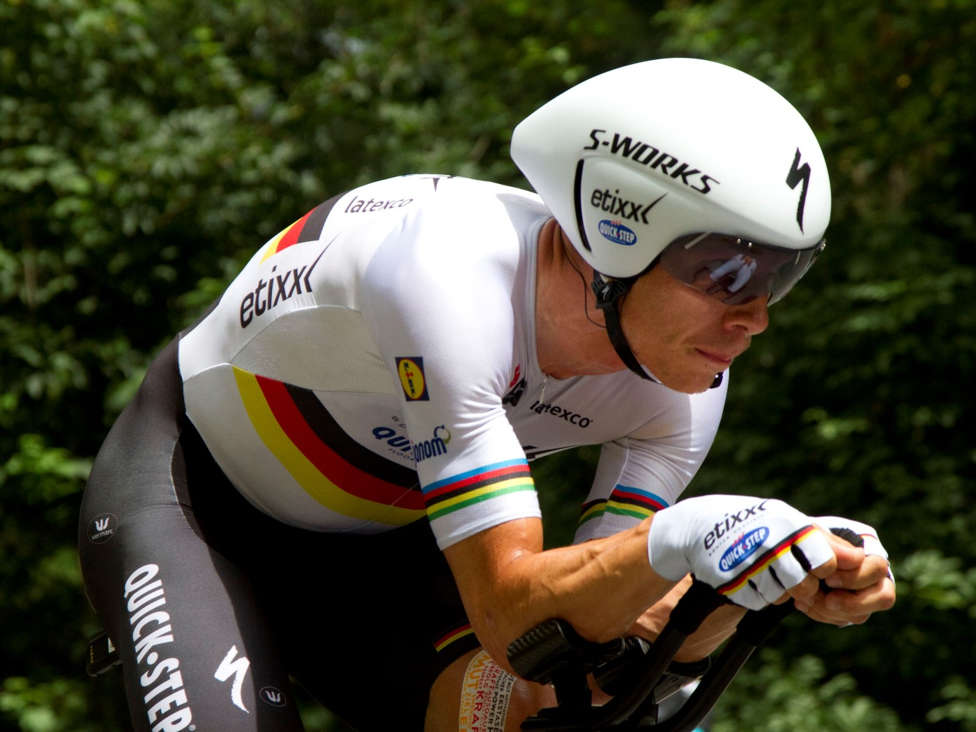 408 tony martin